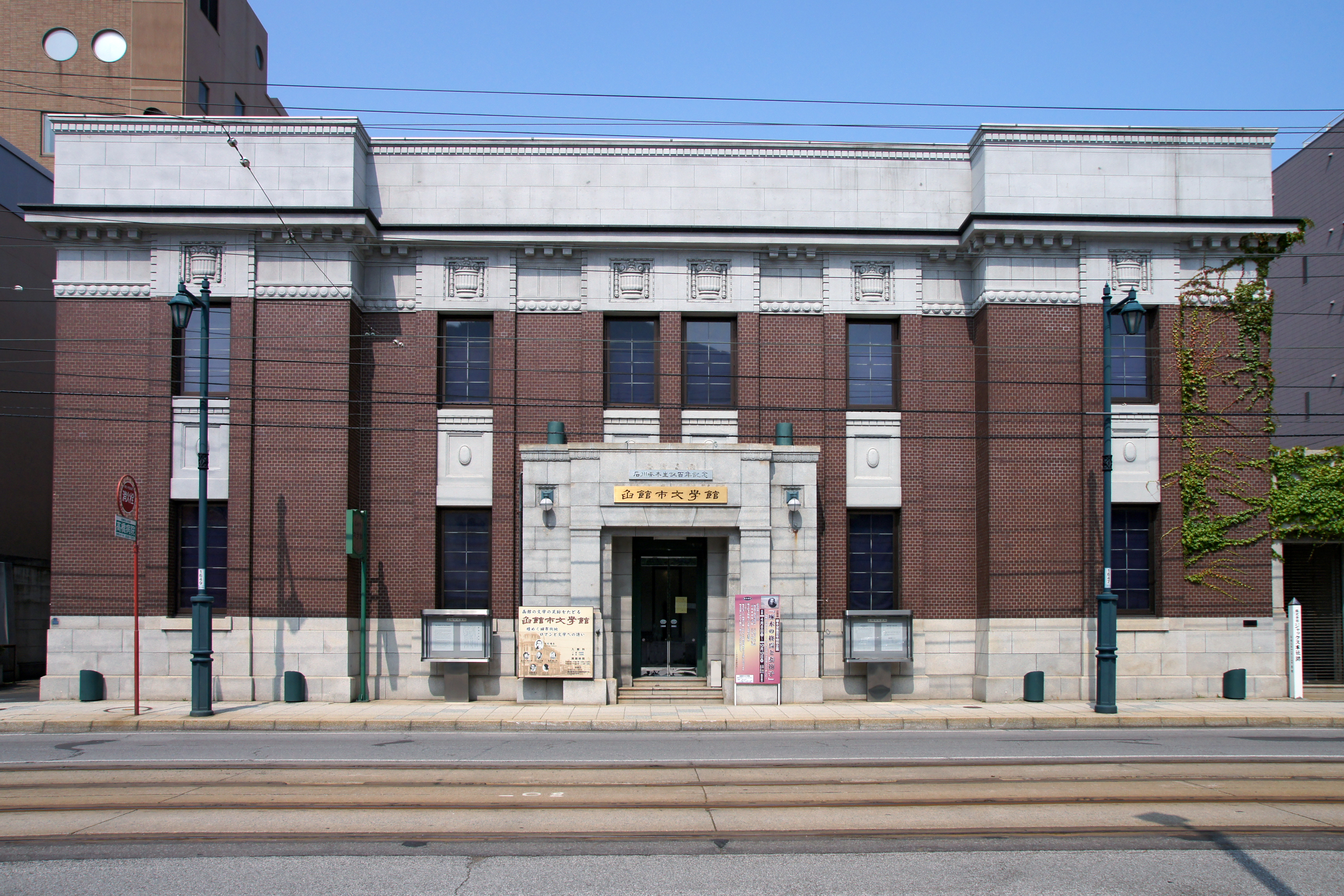 Hakodate City Museum of Literature, Suehirocho, Hakodate, Hokkaido prefecture, Japan